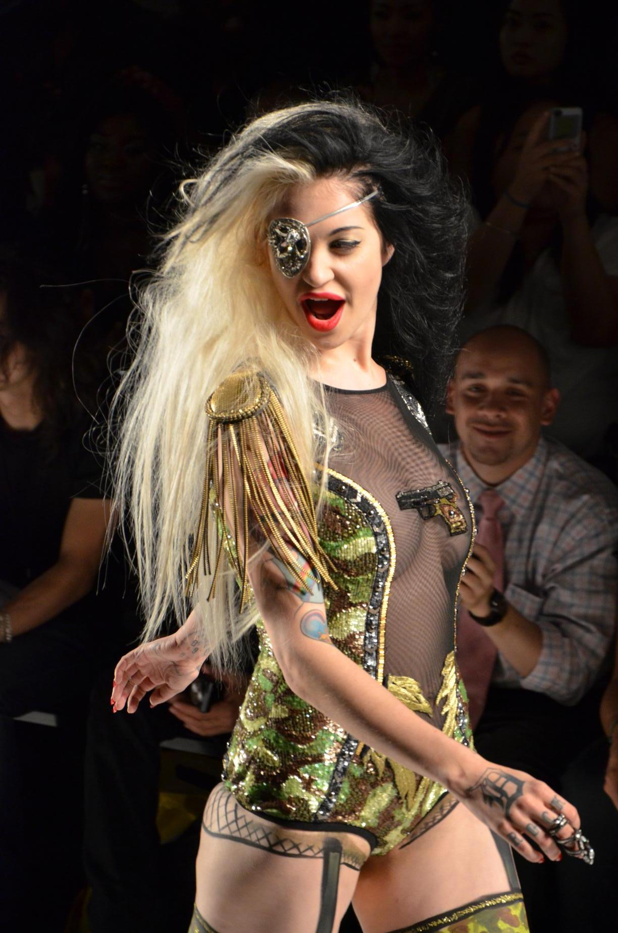 Porcelain Black at the Falguni and Shane Peacock Spring 2012 fashion show.